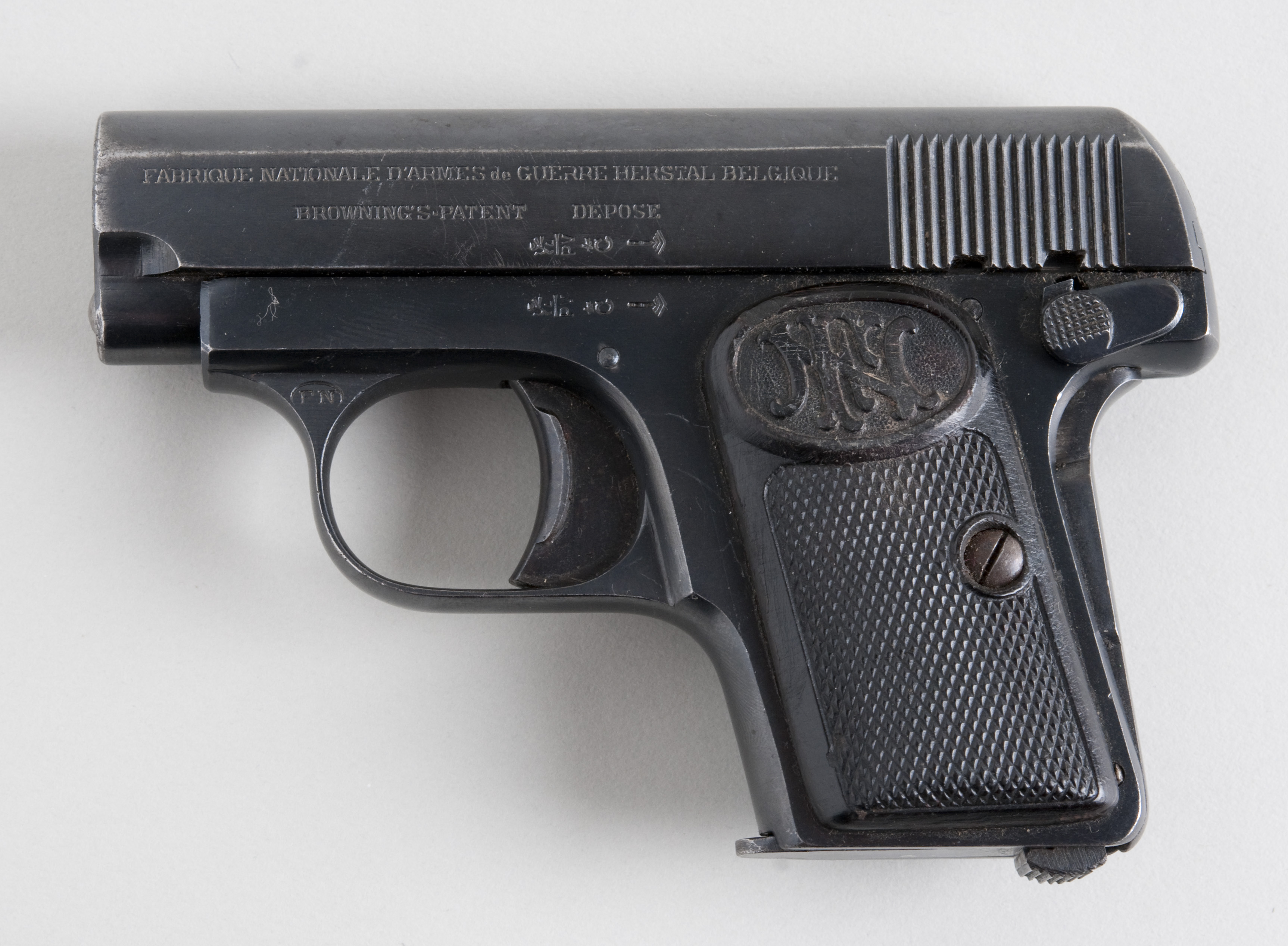 From article on